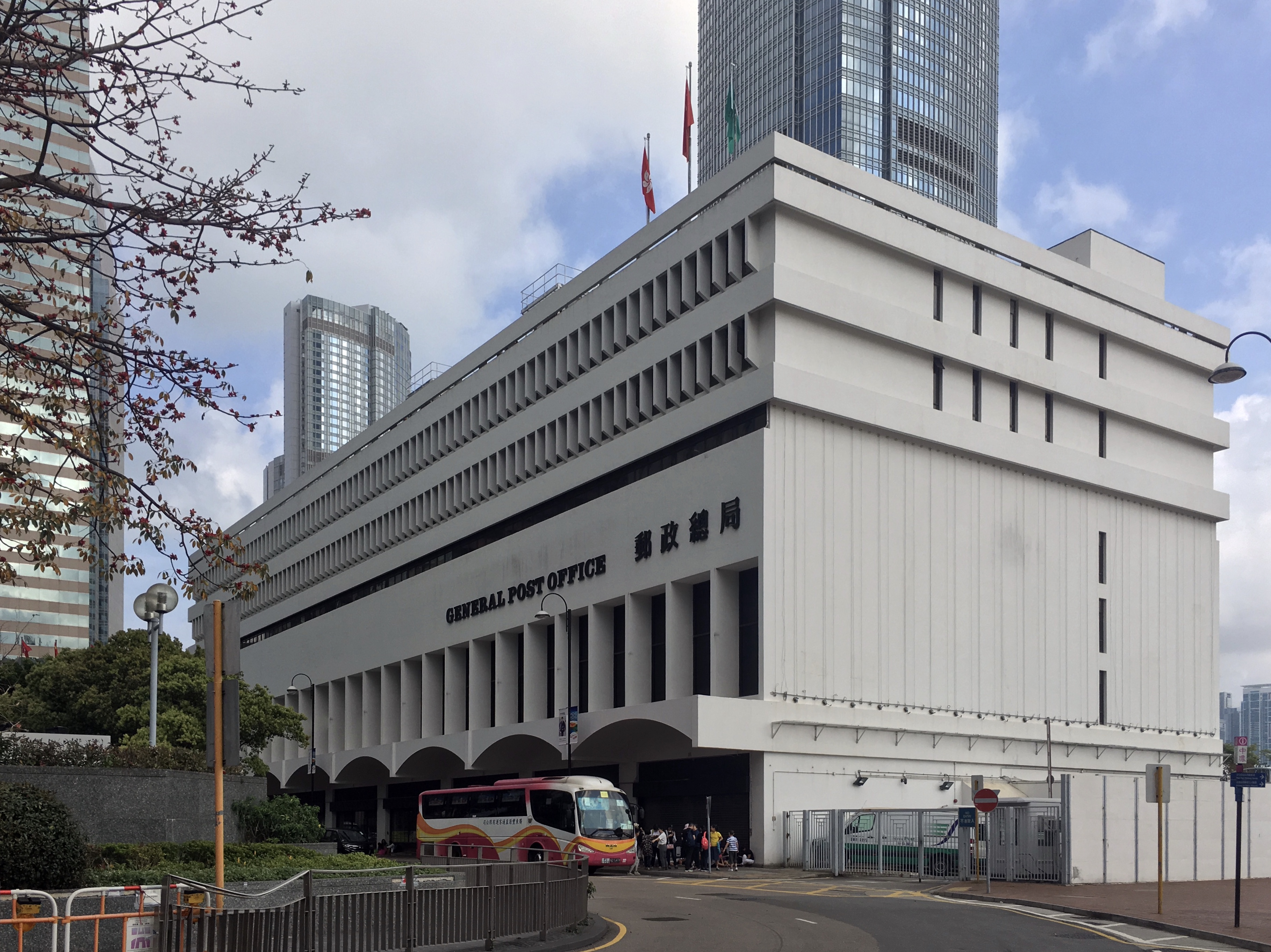 The fourth generation of the Hong Kong General Post Office, located in Central, in front of the Jardine House